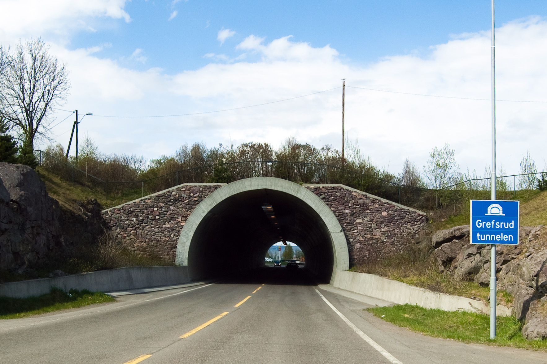 Grefsrud tunnel, Holmestrand, Vestfold, Norway. Seen from the south.